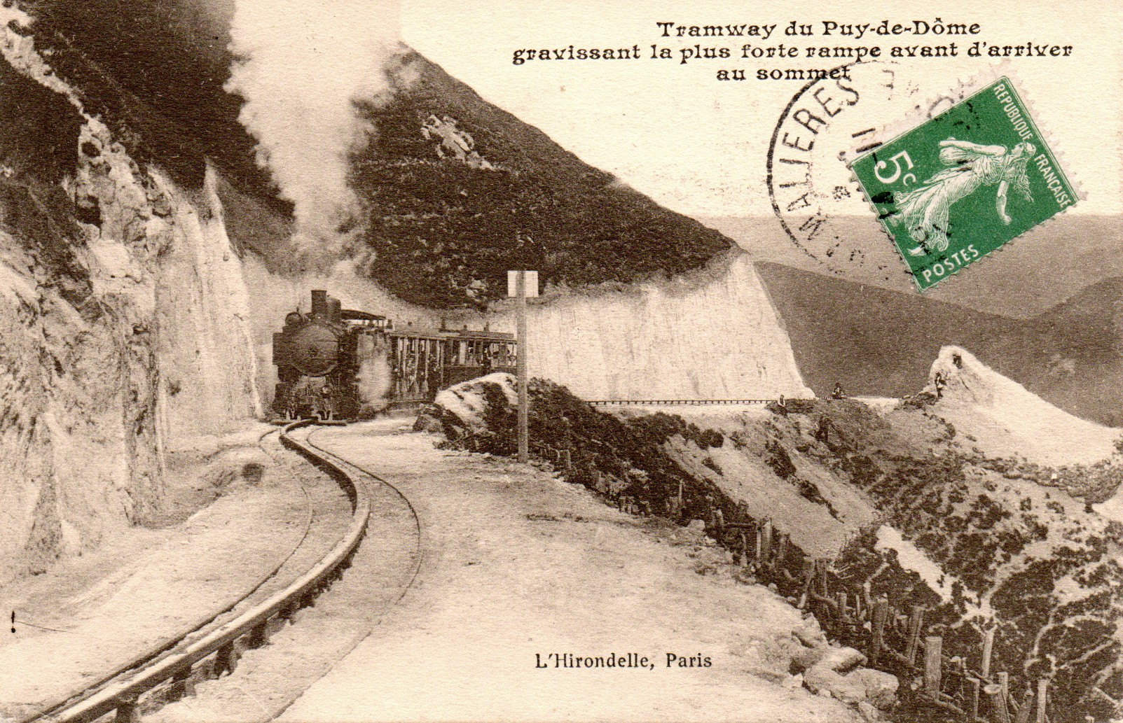 Steam-powered tram with a central rail, on the Puy-de-Dôme (France), vintage postcard published by "L’Hirondelle" in 1910.